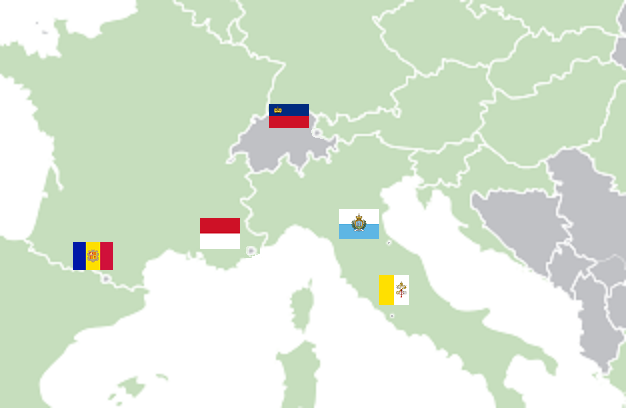 Map of European Microstates and the European Union in 2010. The European Union is in green, microstate flags as follows; Andorra Liechtenstein Monaco San Marino Vatican City